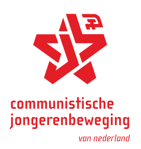 Logo of the Communist Youth Movement of the Netherlands in Dutch